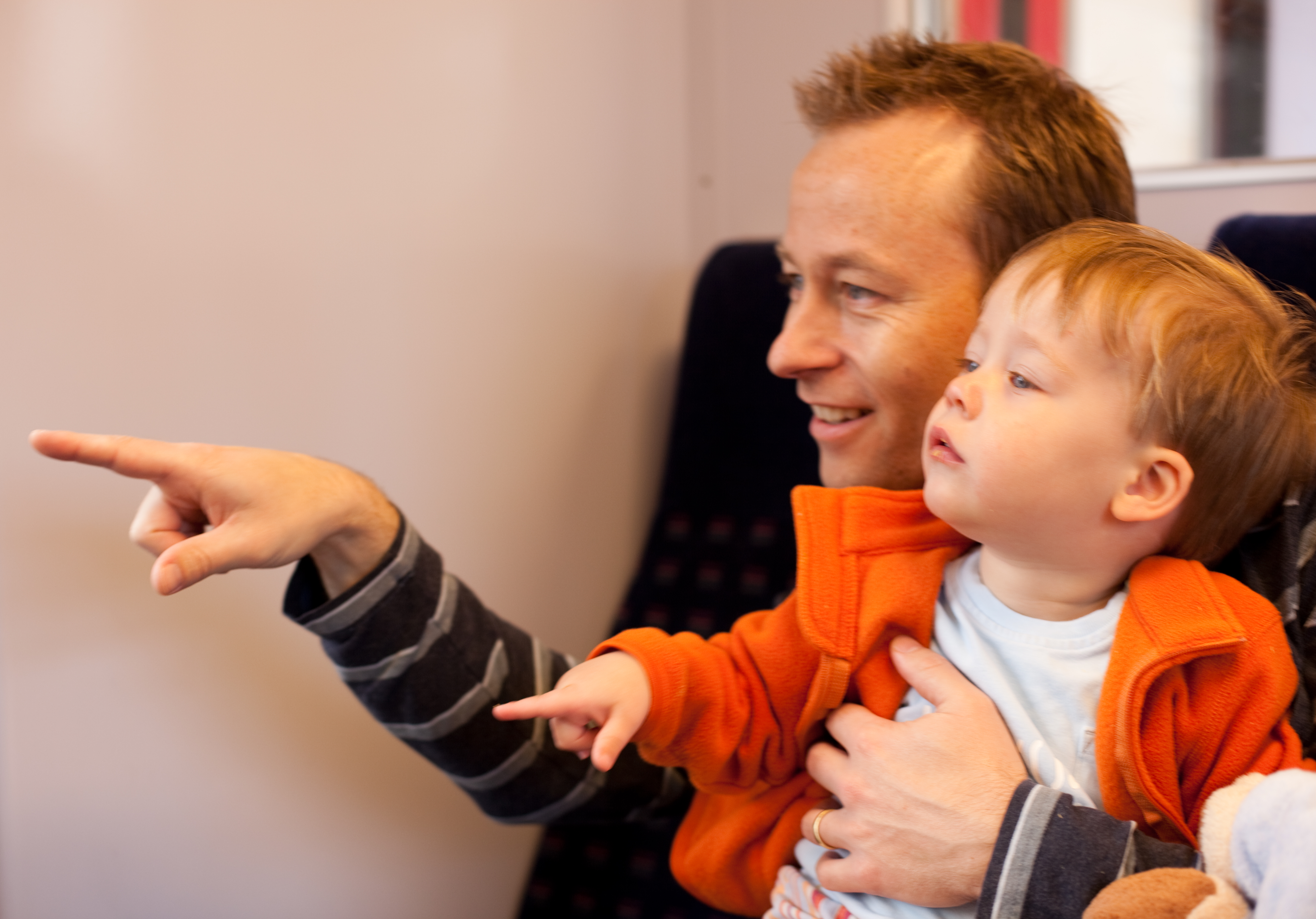 Man and child pointing to the left